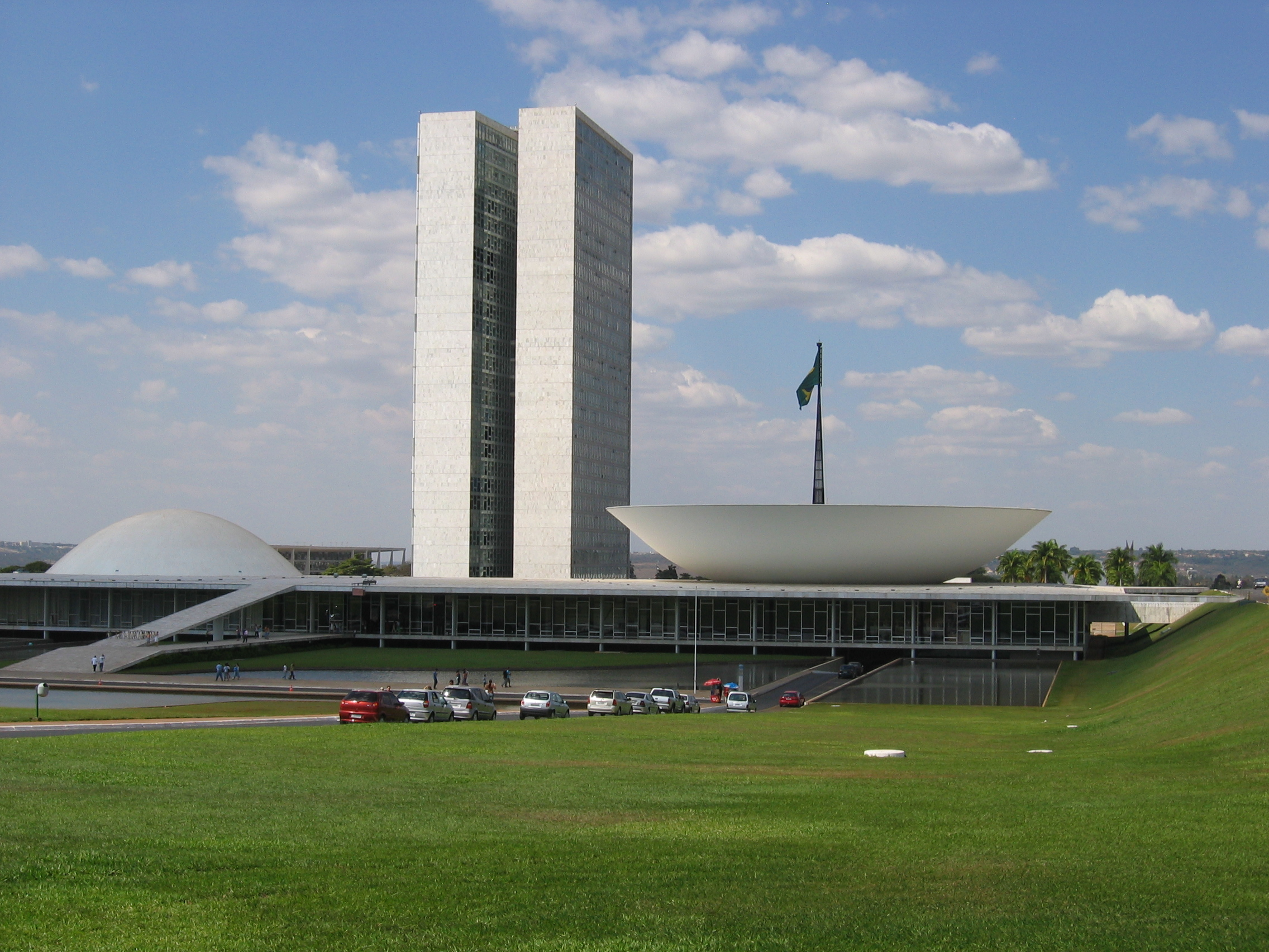 Brazilian Congress and Chamber of Deputies